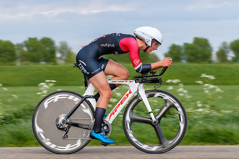 FemkeTTBors